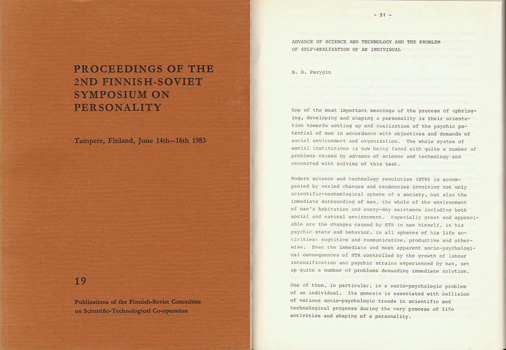 1983. B. D. Parygin (artikkeli). Proceedings of the 2nd Finnish-Soviet symposium on personality. Tampere. June 14-16 1983. Helsinki, - 51-56 s